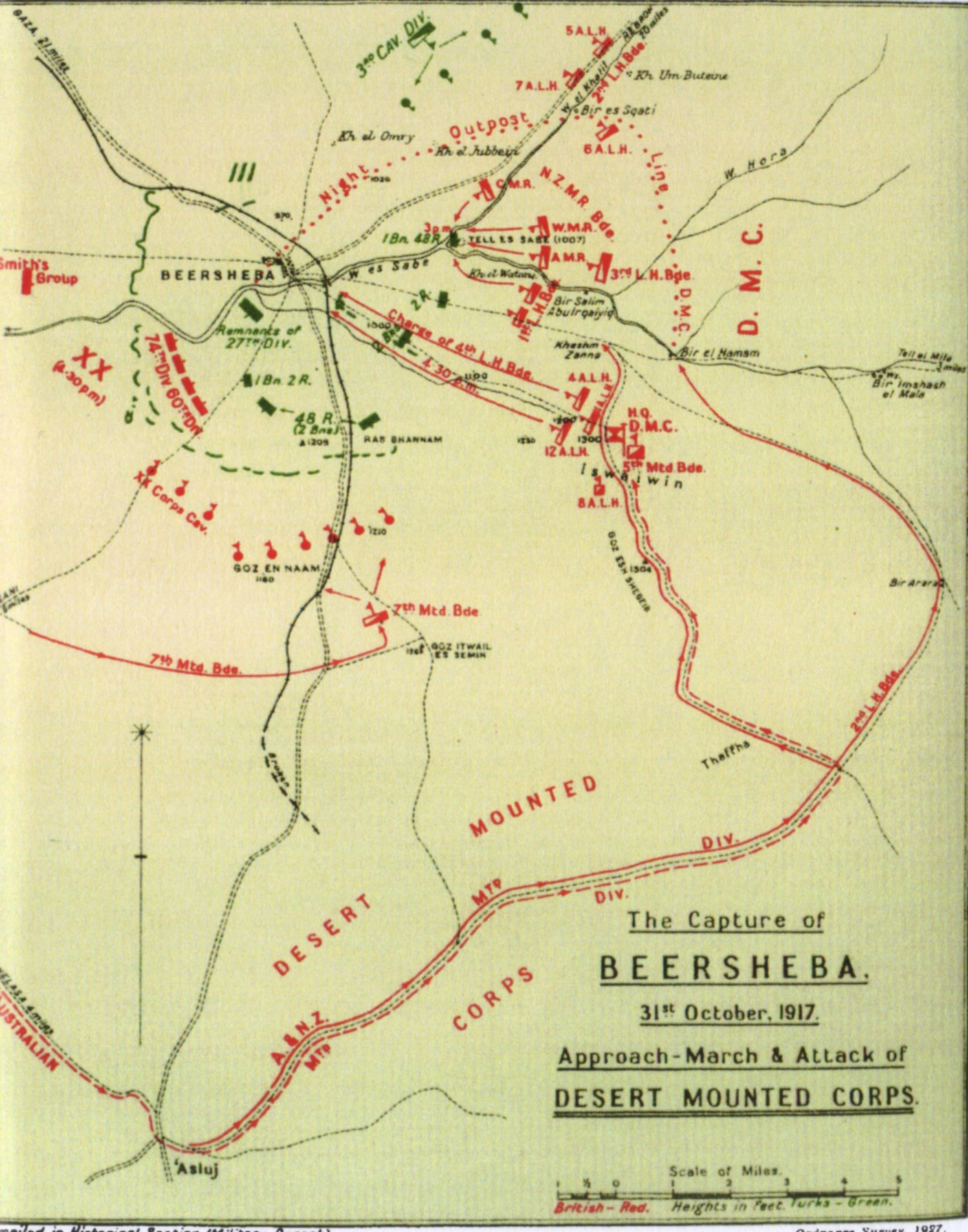 Falls Sketch Map 3 Beersheba approach marches and attack 31 October 1917